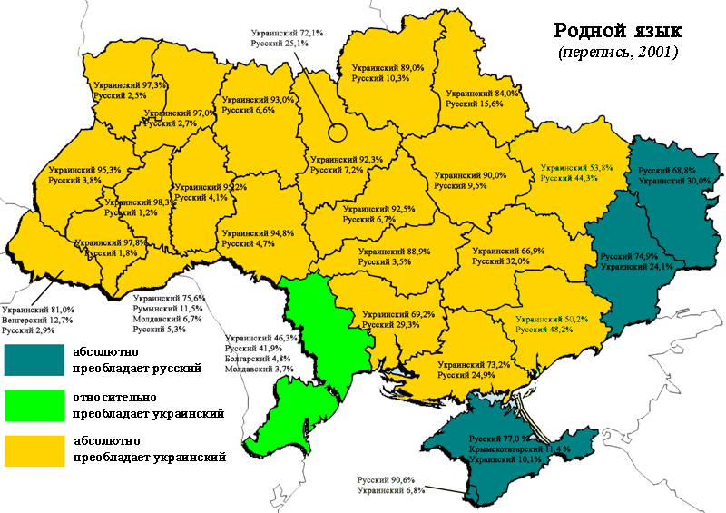 map of languages of Ukraine